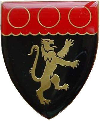 SADF Cape Field Artillery shoulder flash